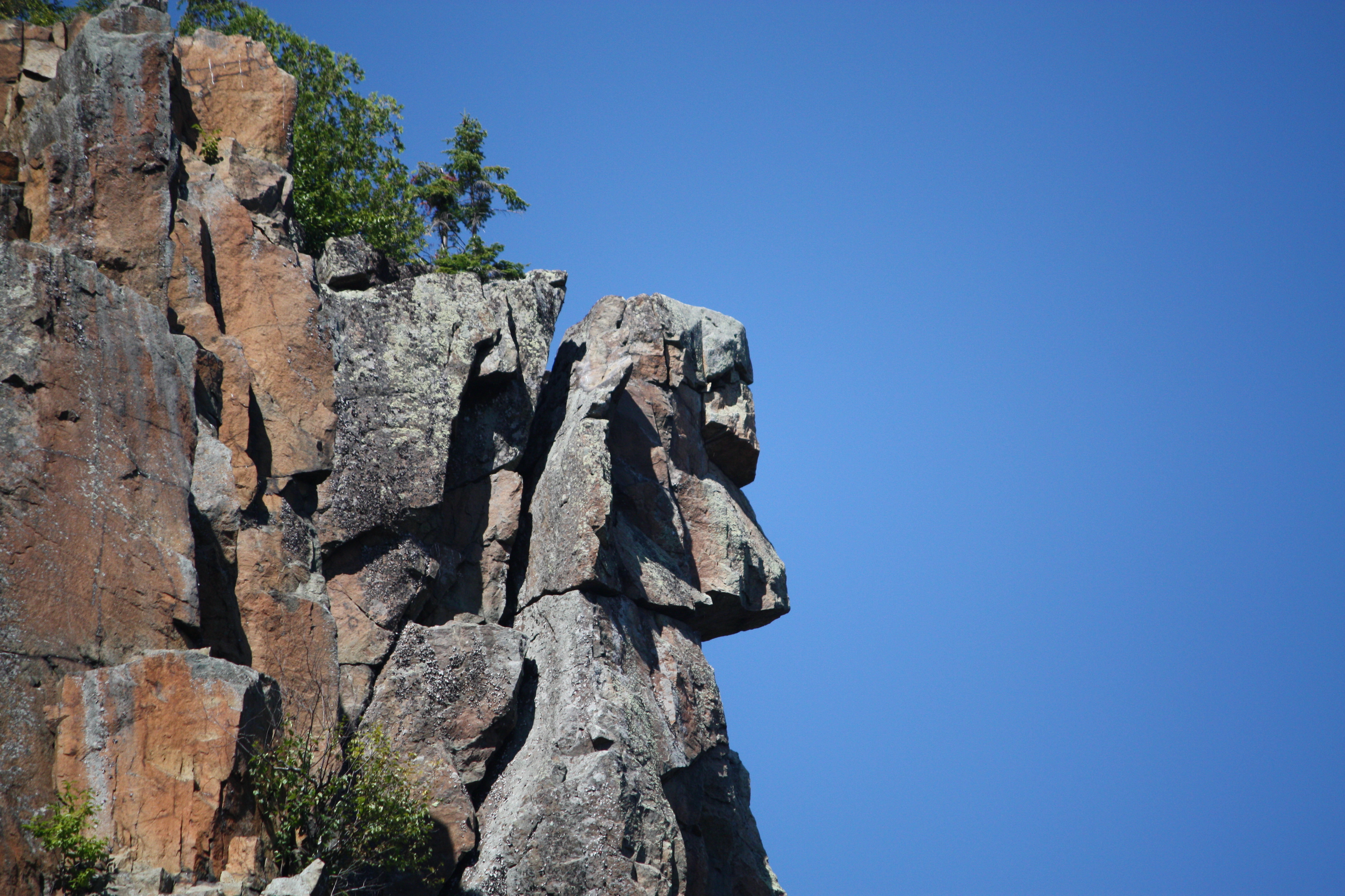 Natural rock formation showing Devil's face. Devil's Rock is located in Northern Ontario, Canada, just outside Temiskaming Shores.